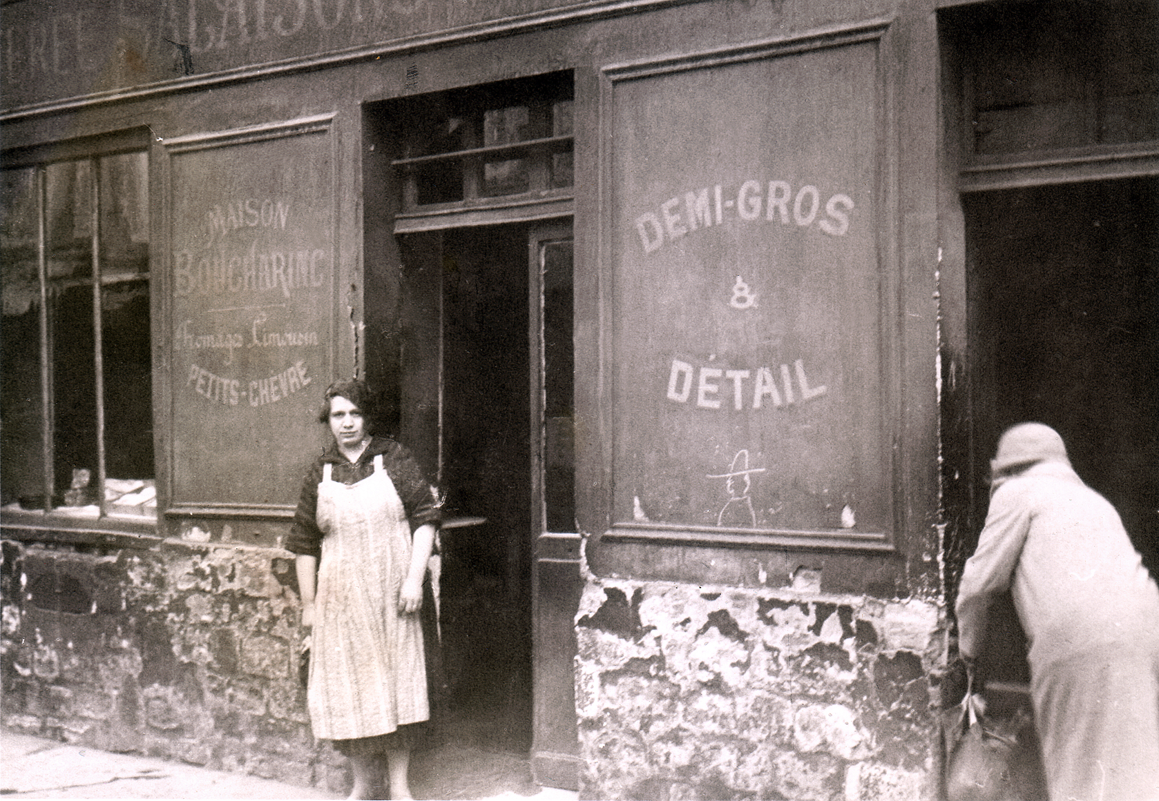 Cliché 1917. Old Paris. A worker at a popular store. (Berthe Boucharenc (1901-1982), before the Auvergne goods store of her father, Jean-Pierre Boucharenc (1876-1955), rue de la Glacière, Paris 13e.